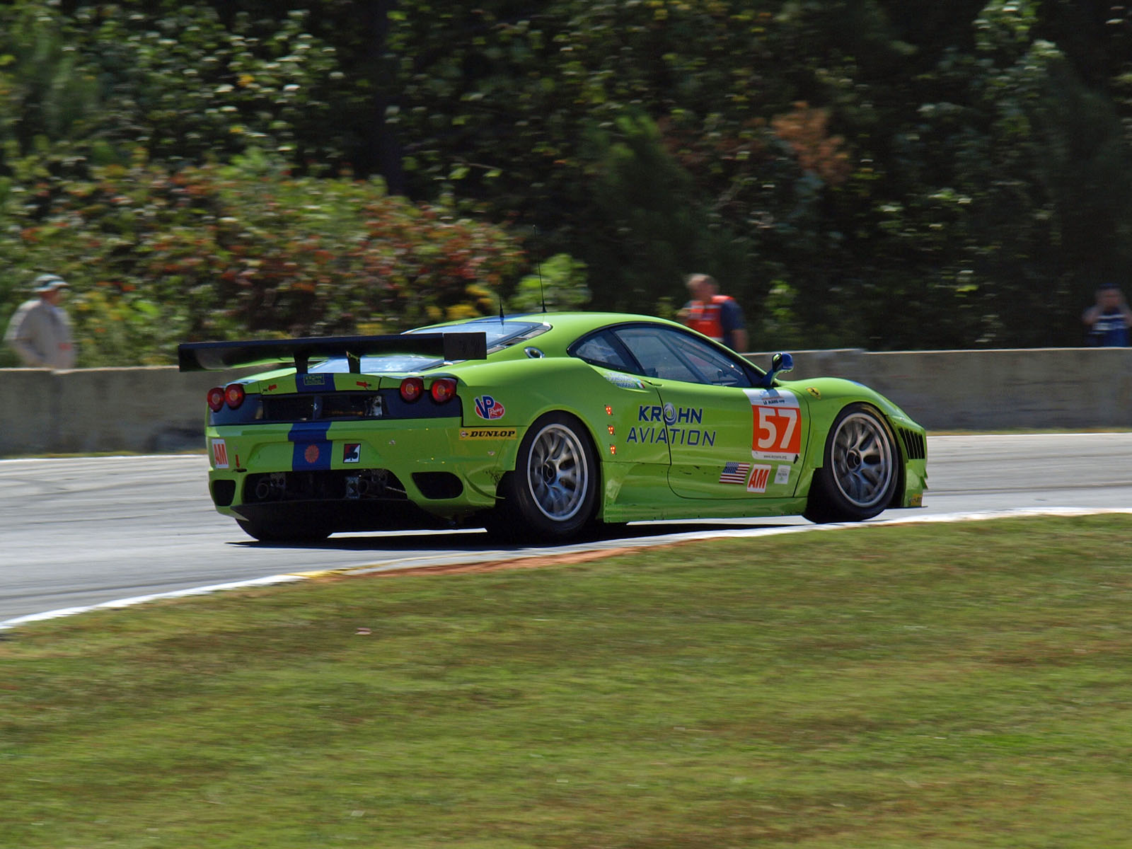 The Krohn Racing Ferrari 430 in the 2011 Petit Le Mans at Road Atlanta.